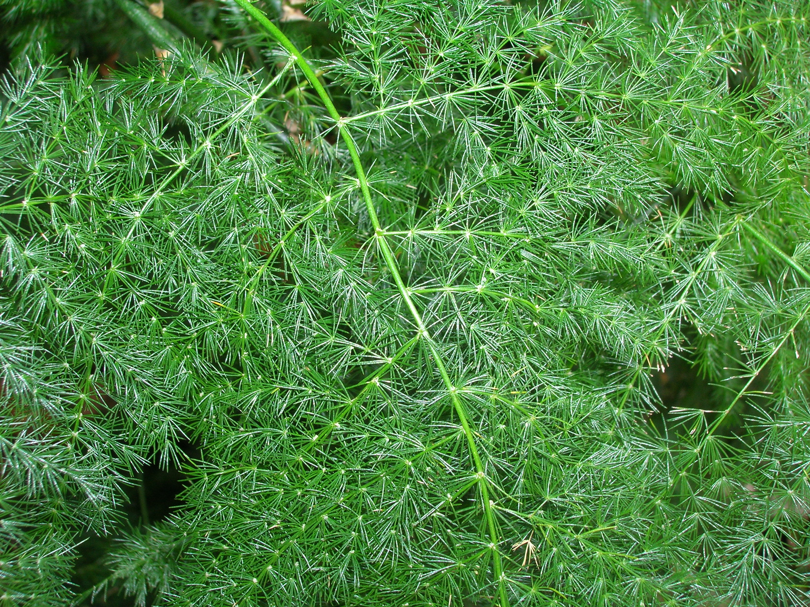 Asparagus setaceus (frond). Location: Molokai, Kamalo